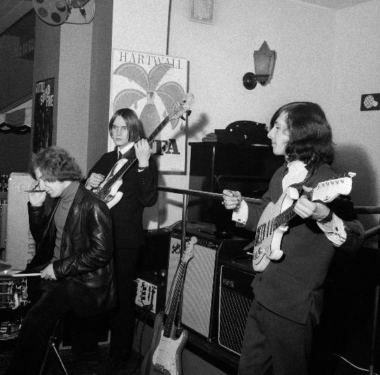 Photograph of the Finnish rock group The Creatures. To the left, Remu Aaltonen. To the right, Kirka Babitzin. The location is Pop Kellari, Hämeentie 10.